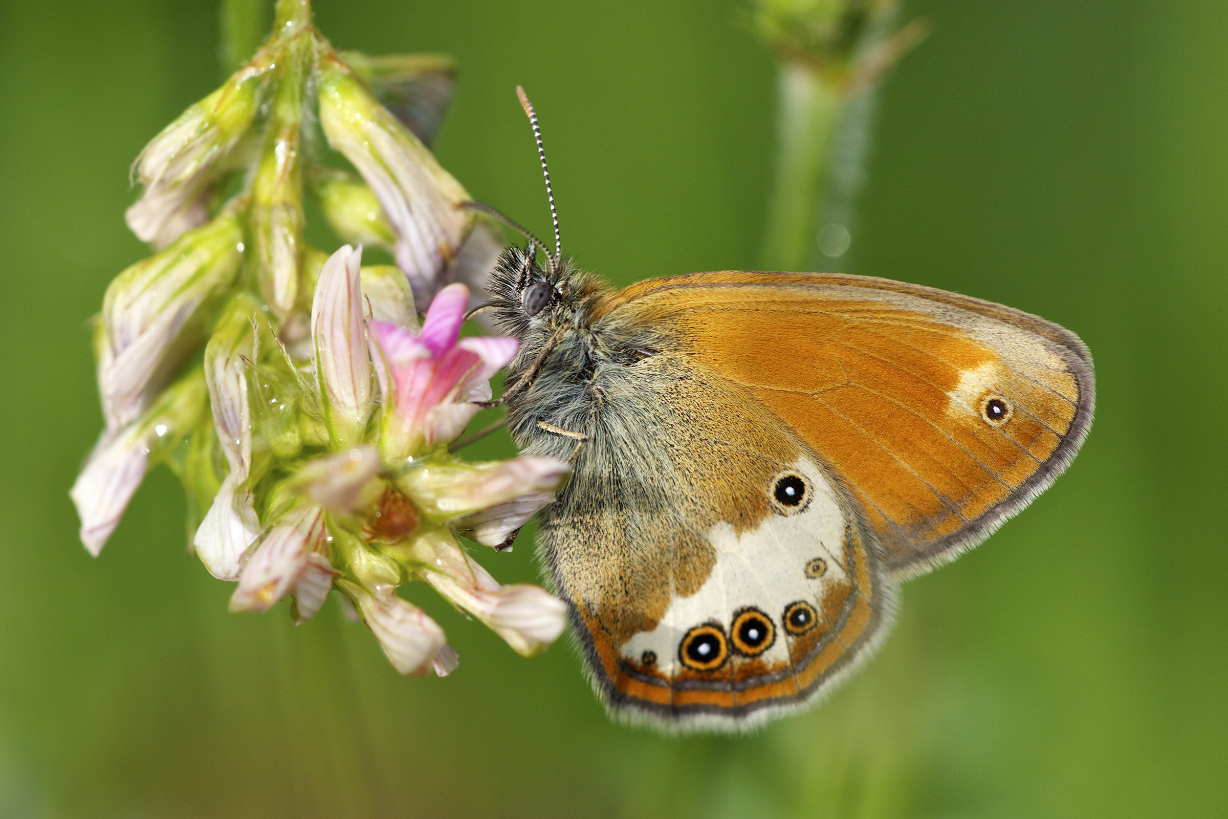 Pearly Heath (Coenonympha arcania), Leutra valley near Jena, Thuringia, Germany